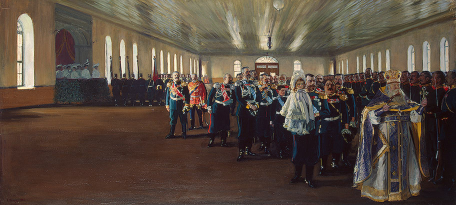 Church Parade of the Finlandsky Guard Regiment, December 12, 1905 (Julian Calendar). The painting is completed in 1906